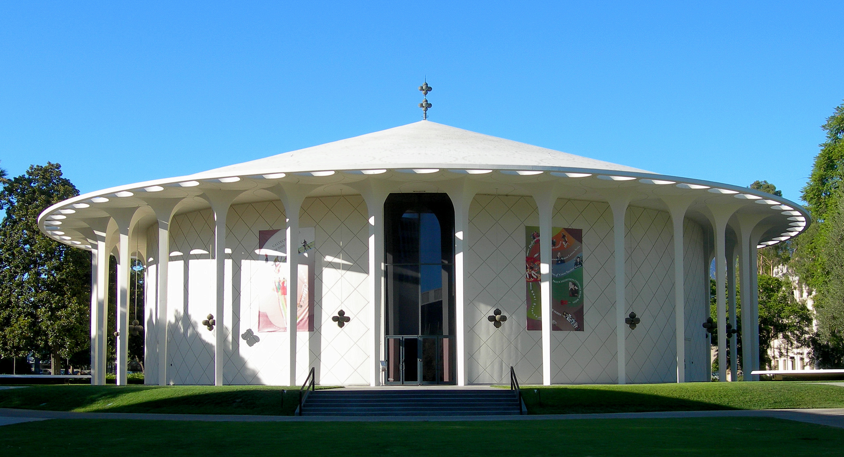 Beckman Auditorium, California Institute of Technology, Pasadena, CA. Designed by Edward Durell Stone, 1960.